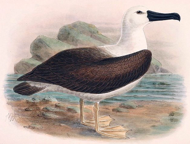 Yellow-nosed Albatross from Australia